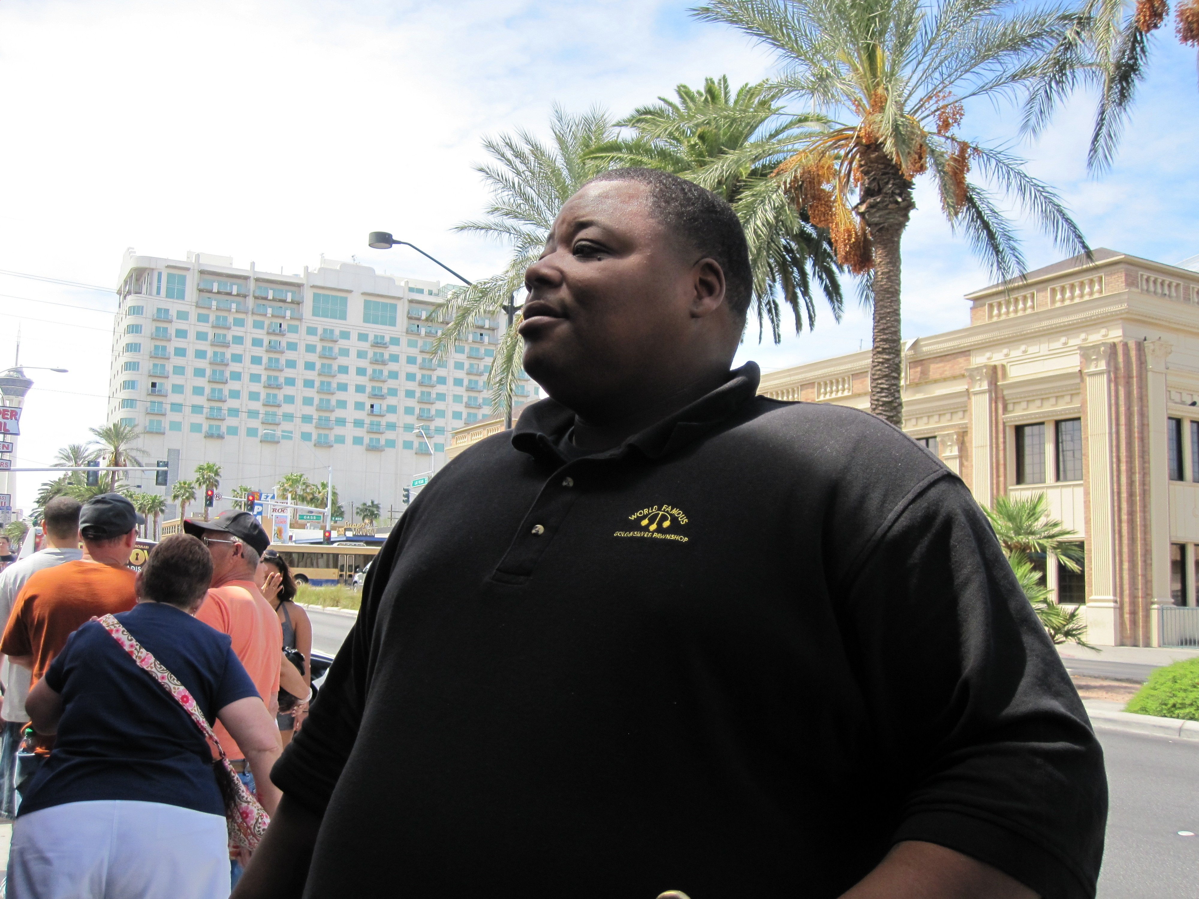 Bouncer located outside of the door to the shop use at the filming site for the American reality television series Pawn Stars. (The Gold and Silver Pawn shop in Las Vegas)